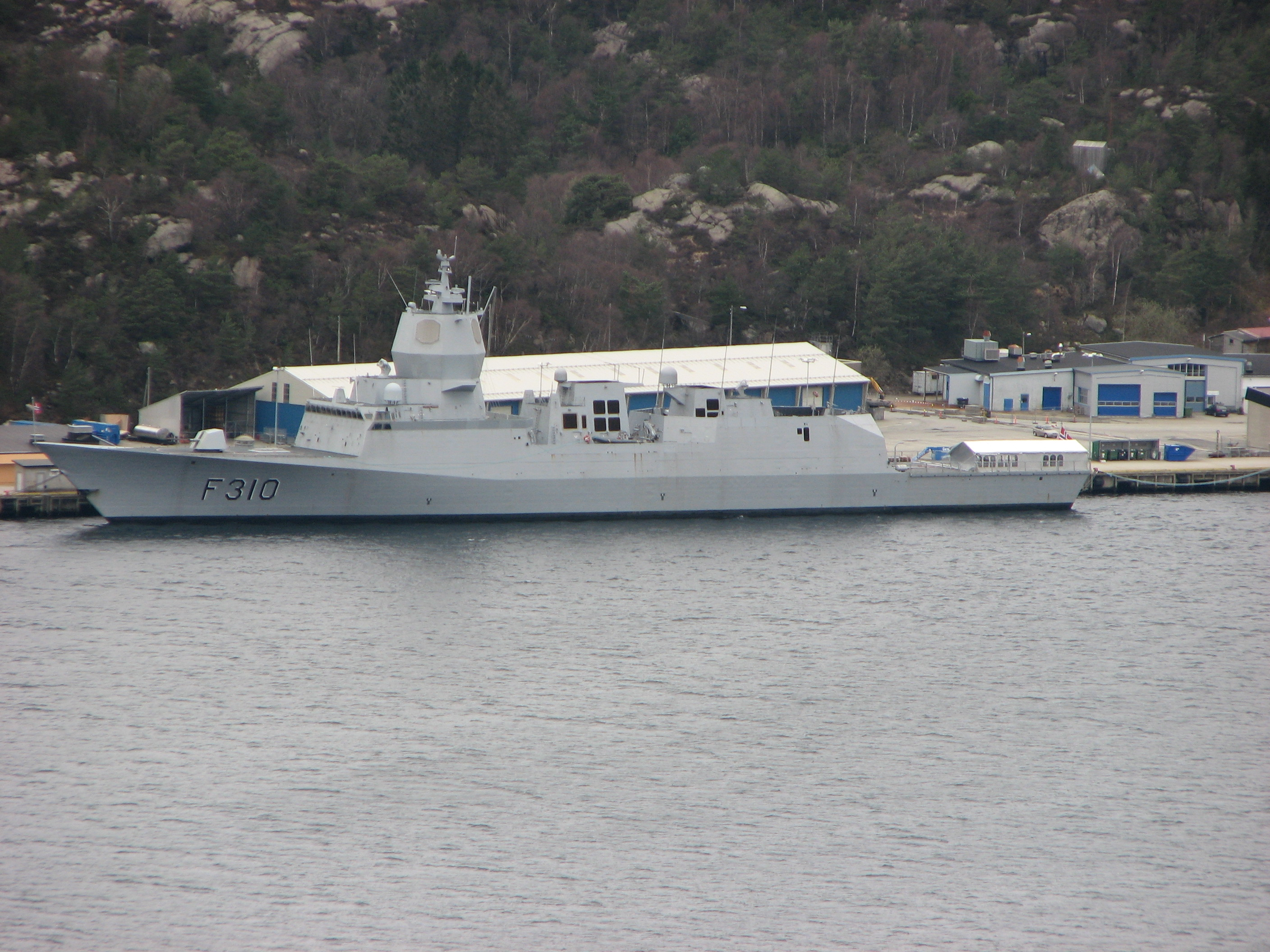 KNM Fridtjof Nansen at Haakonsvern naval base, Bergen, 2009-04-10